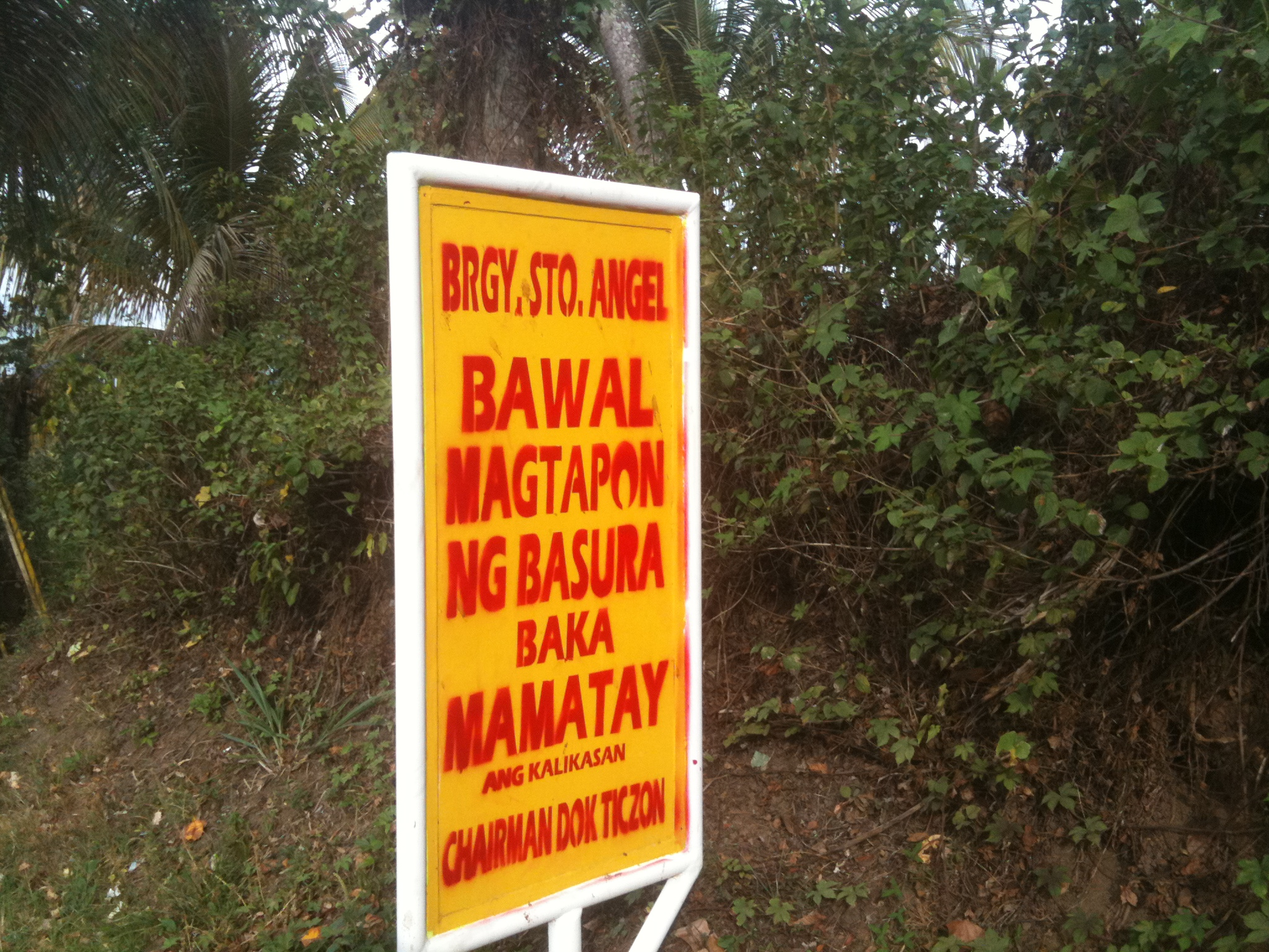 No dumping sign written in Tagalog along the highway between San Pablo City and Rizal in Laguna.